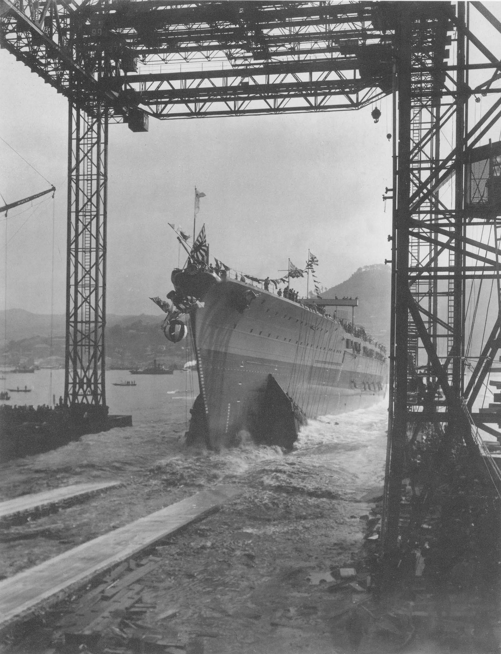 Imperial Japanese Navy battleship Tosa launched from Nagasaki shipyard.